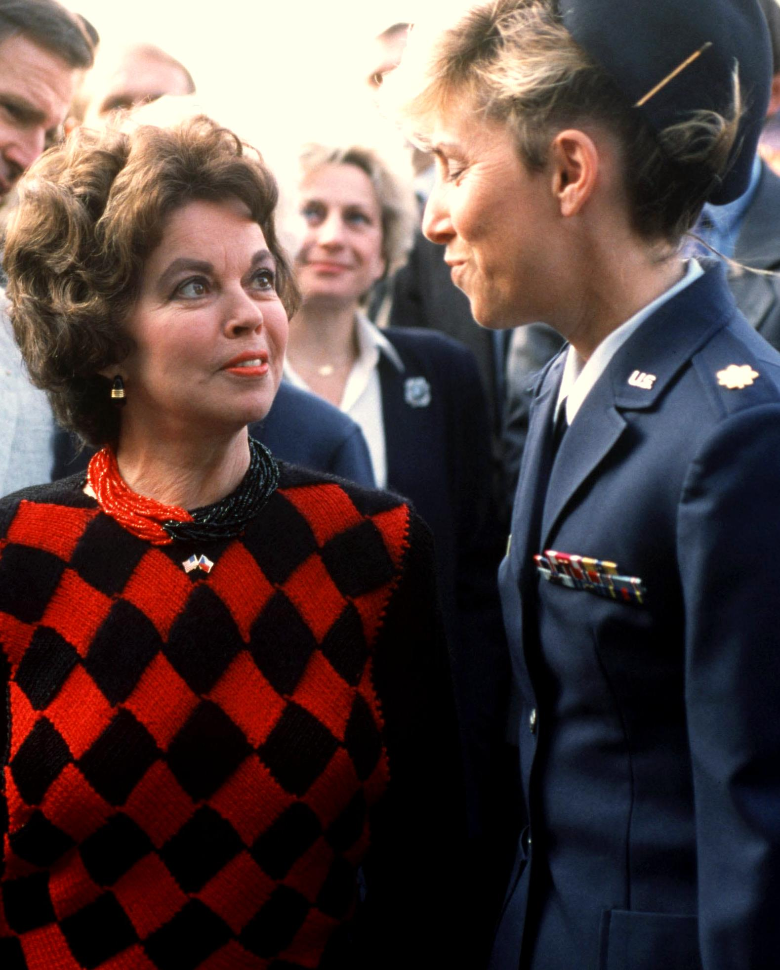 U.S. Ambassador to Czechoslovakia Shirley Temple Black talks with MAJ Carolyn May, the European Command representative for the Defense Department's Office of Humanitarian Affairs, following the arrival of a transport aircraft from Rhein-Main Air Base, Germany. The aircraft carried 130,000 pounds of donated medical supplies that will be turned over to the Czech government for distribution.